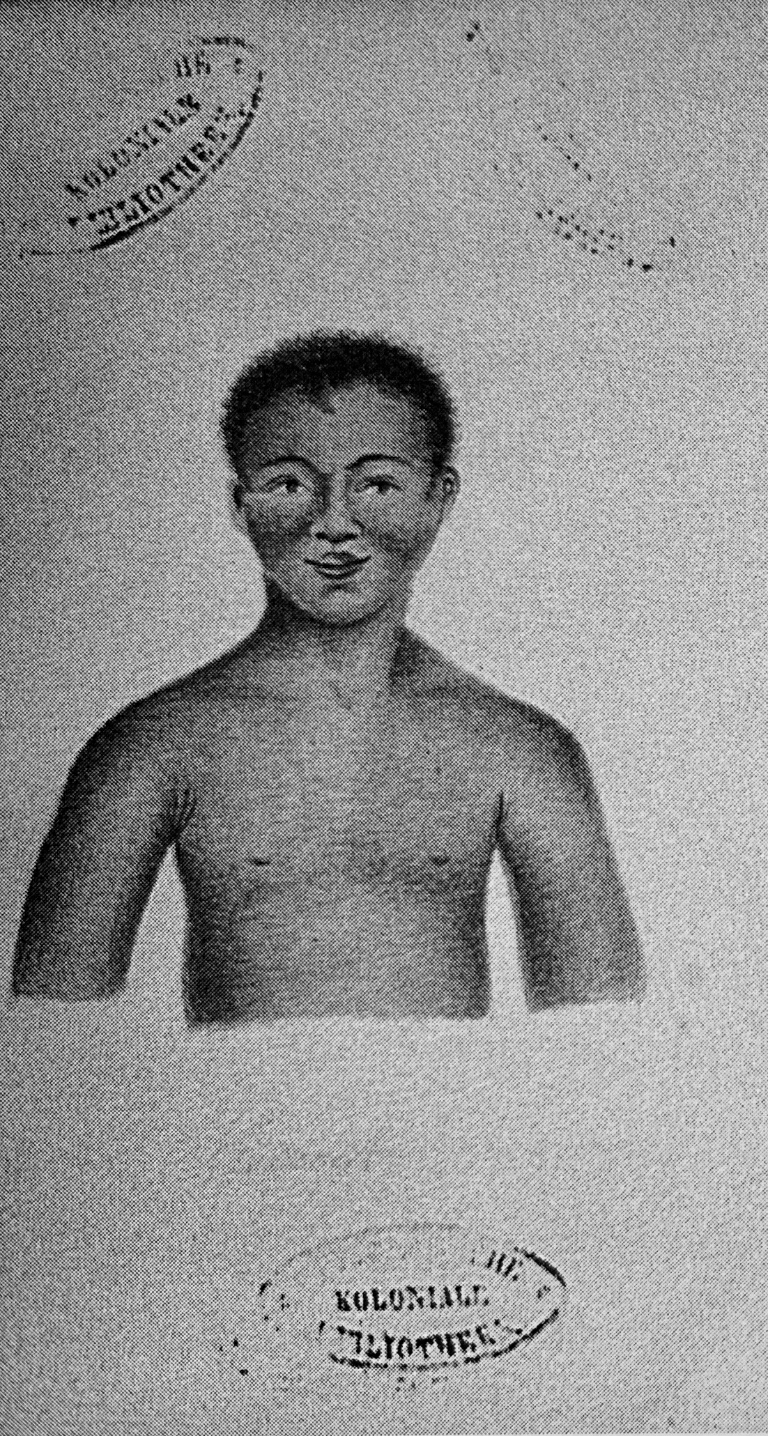 Present was one of the three men who were convicted for the great city fire of Paramaribo (1832). The fire destroyed in a short time about 50 houses and the Lutheran church. The complete drawing includes the the portraits of the two other convicts Cojo (Kodjo) en Mentor and was made by the Surinamese artist Gerrit Schouten on January 24, 1833 and was later found among the papers of the President of the Court of Justice, judge Adriaan François Lammens.